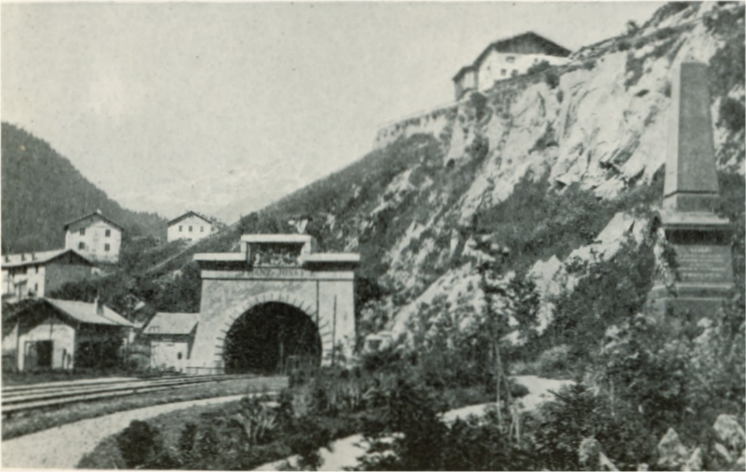 The eastern mouth of the Arlberg railway tunnel around 1898